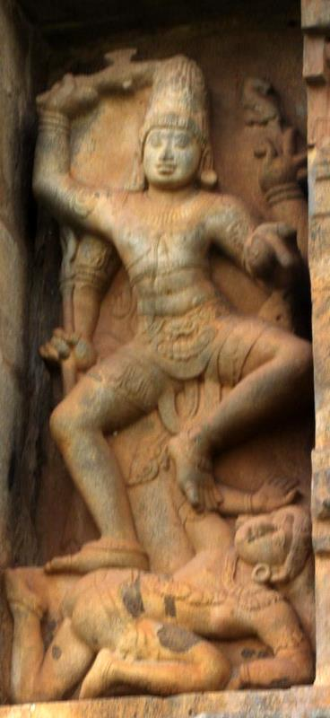 Kalari found in the Gangai-konda-choleshvaran temple